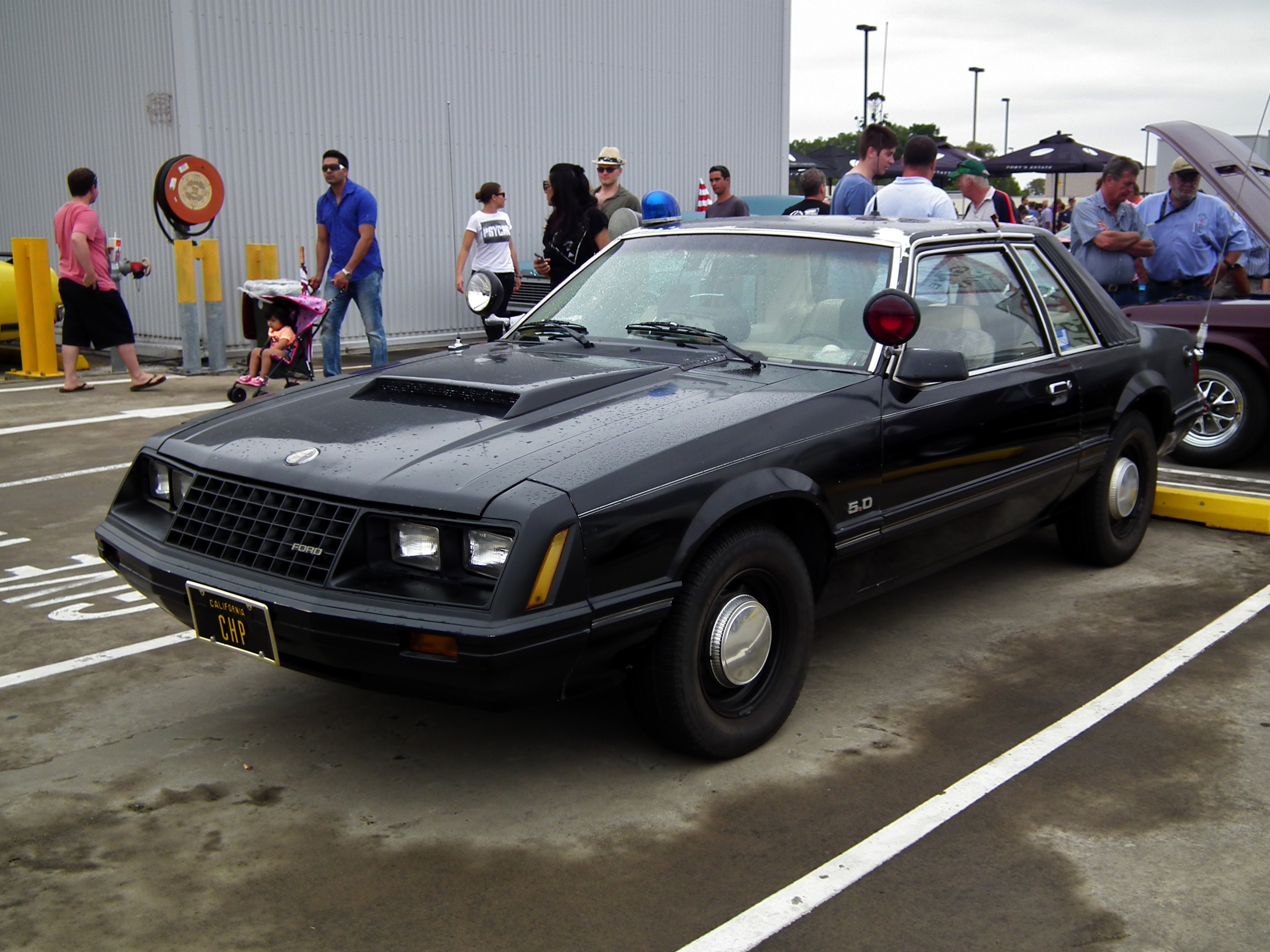 1982 Ford Mustang coupe. Former California Highway Patrol car. Taken at the 2013 New South Wales All American Day, held at Castle Towers Shopping Centre, Castle Hill, Sydney.